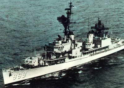 The U.S. Navy destroyer USS Arnold J. Isbell (DD-869) entering Sydney Harbour, Australia, in 1970.